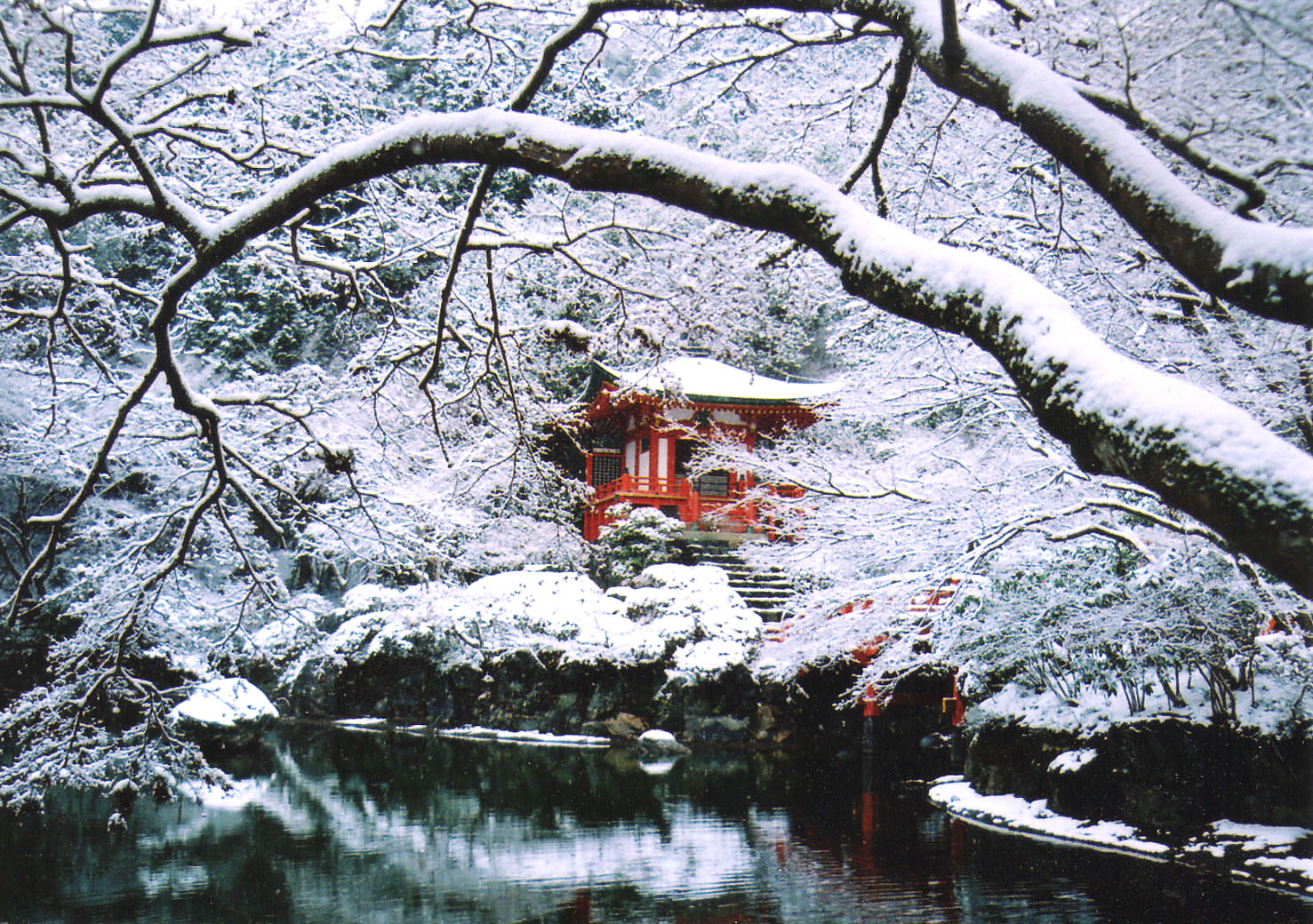 Benten shrine on the precinct of the Daigo-ji temple